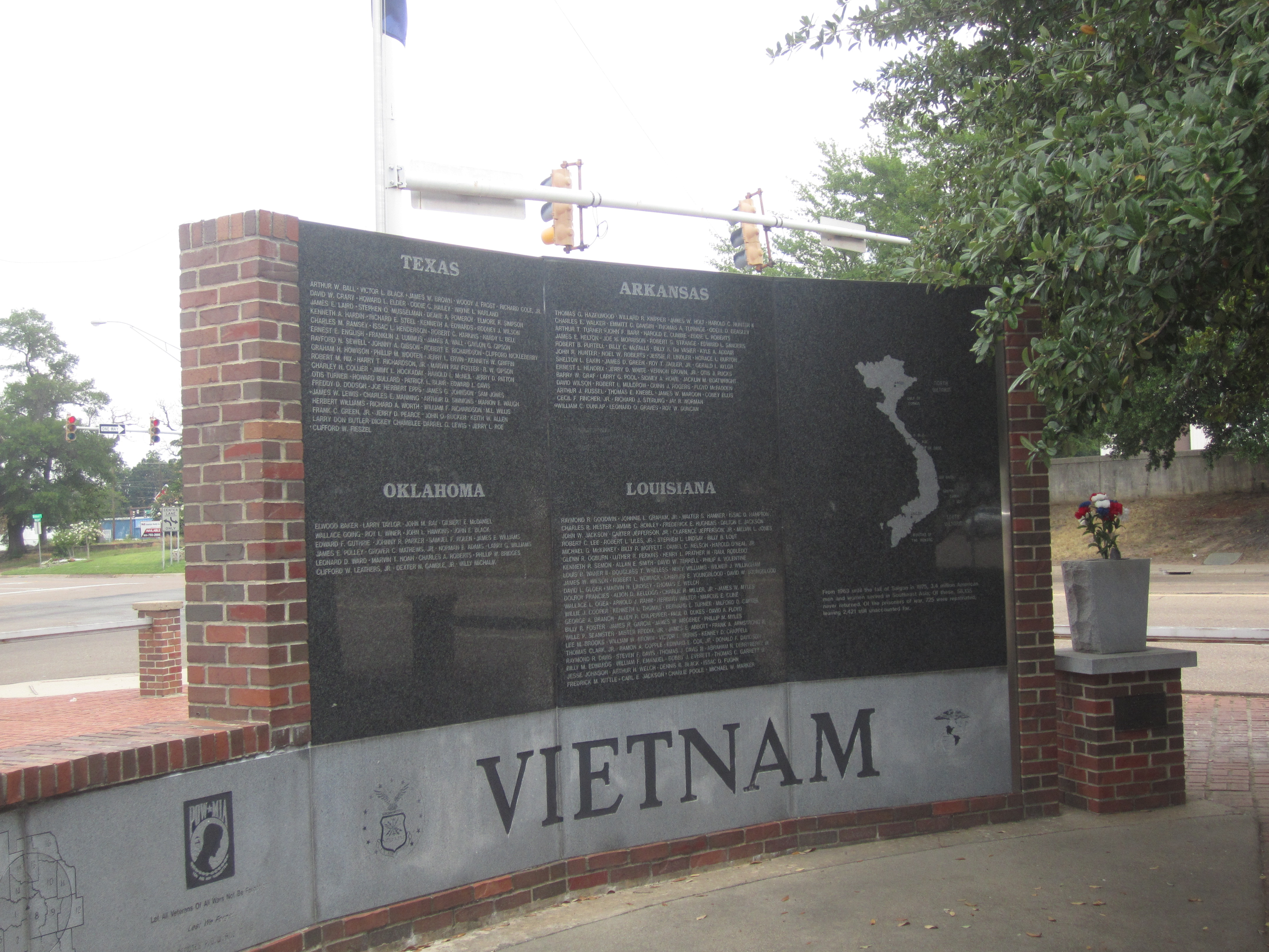 I took photo with Canon camera of Vietnam Memorial in Texarkana on June 9, 2012.Billy Hathorn (talk) 02:24, 29 June 2012 (UTC)